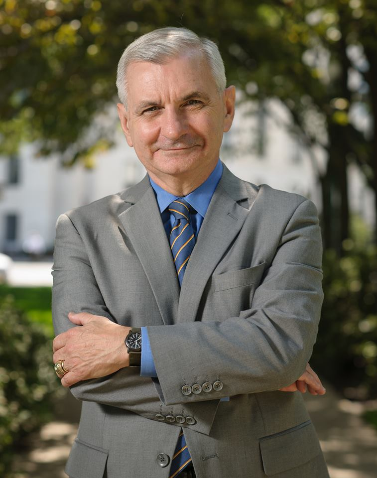 Jack Reed, US Senator, official photo